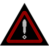 Led 3